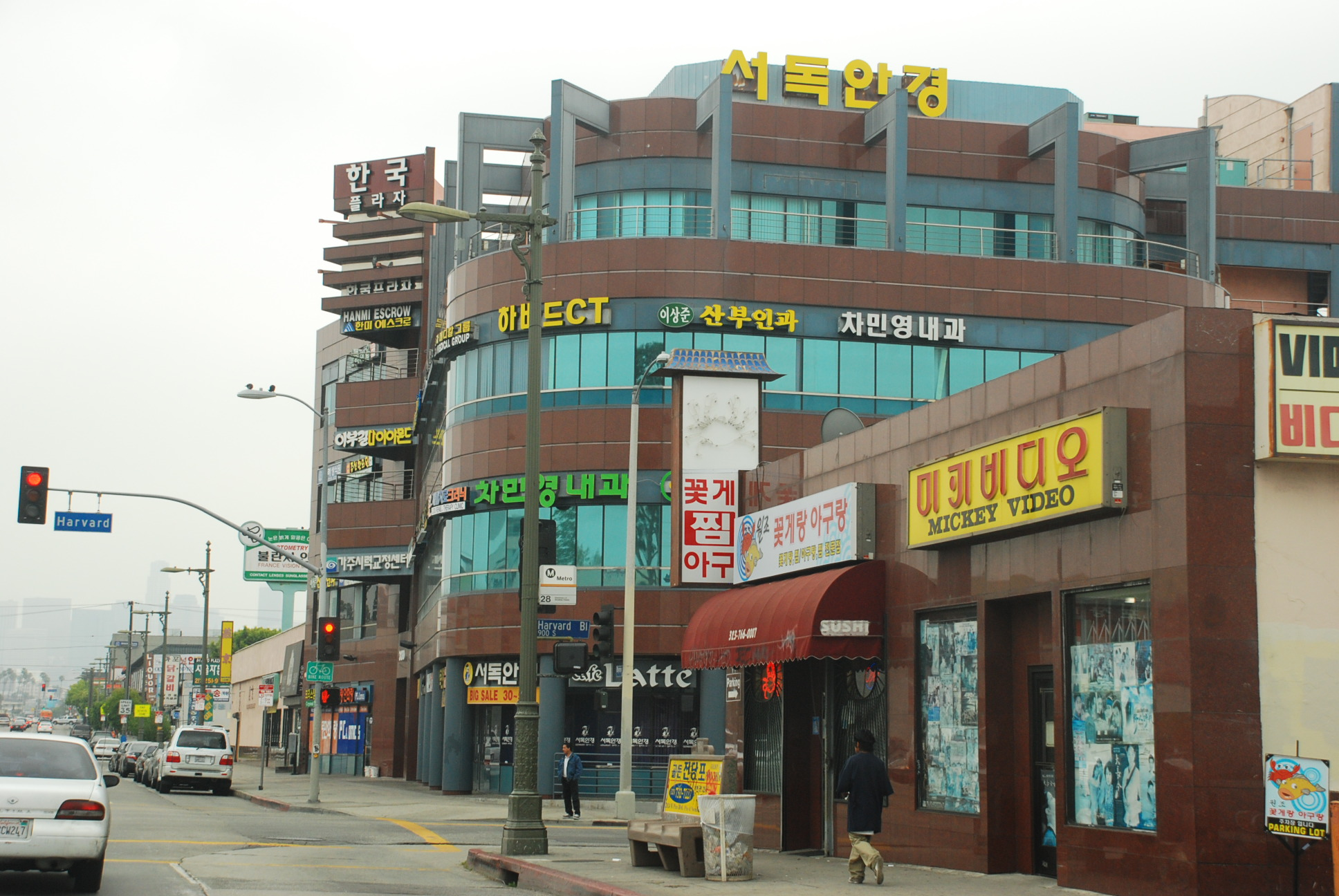 Koreatown street scene Olympic & Harvard, Los Angeles